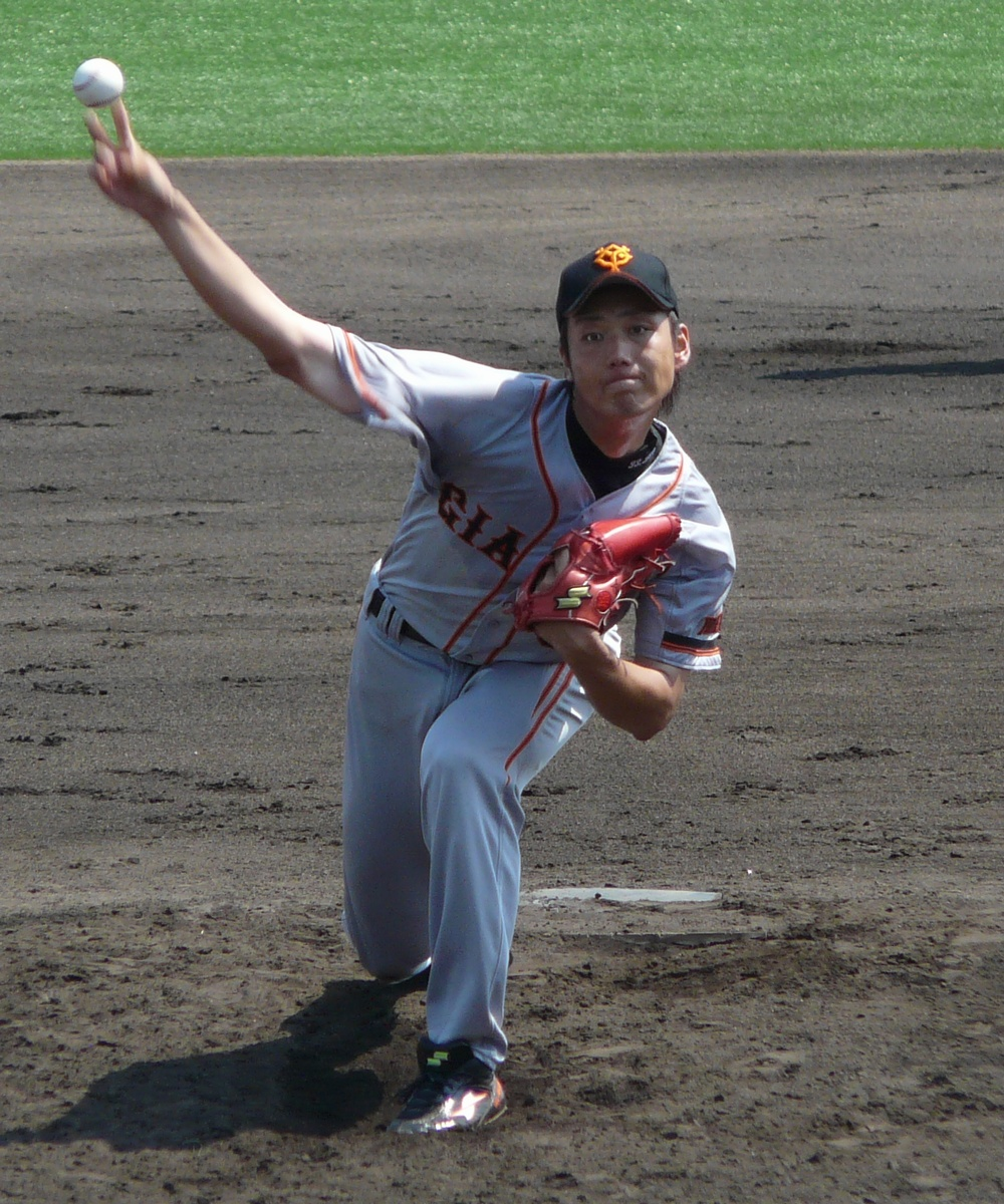 YG-Syoki-Kasahara20110629